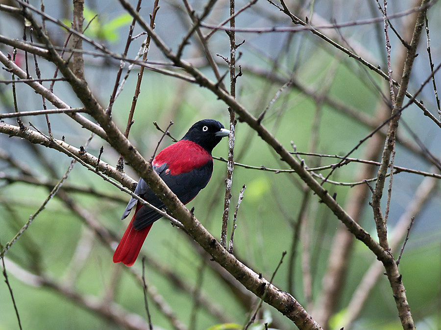 taken at Wulai, Taipei County, Taiwan.